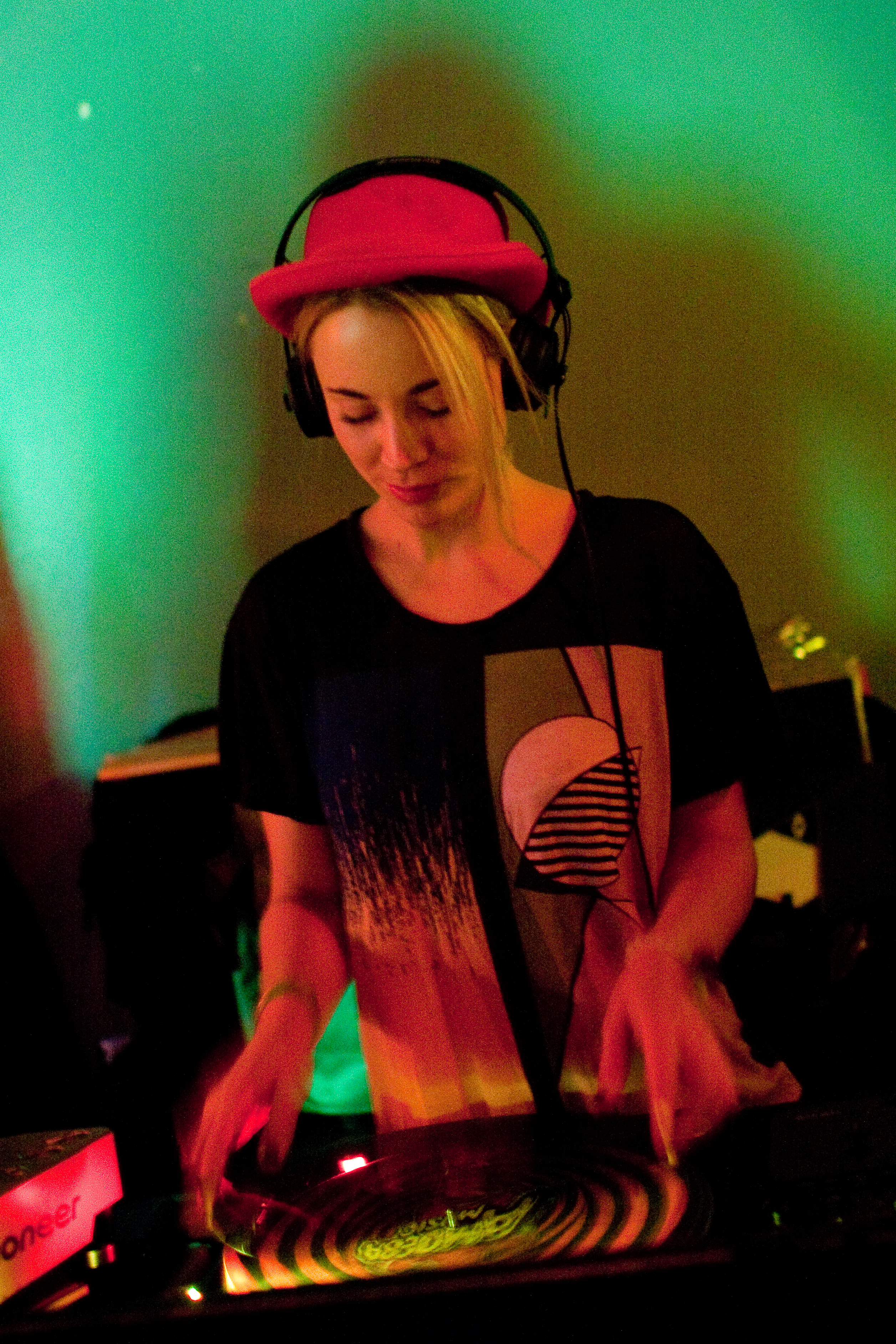 Annie performing at Popscene (San Francisco, California)